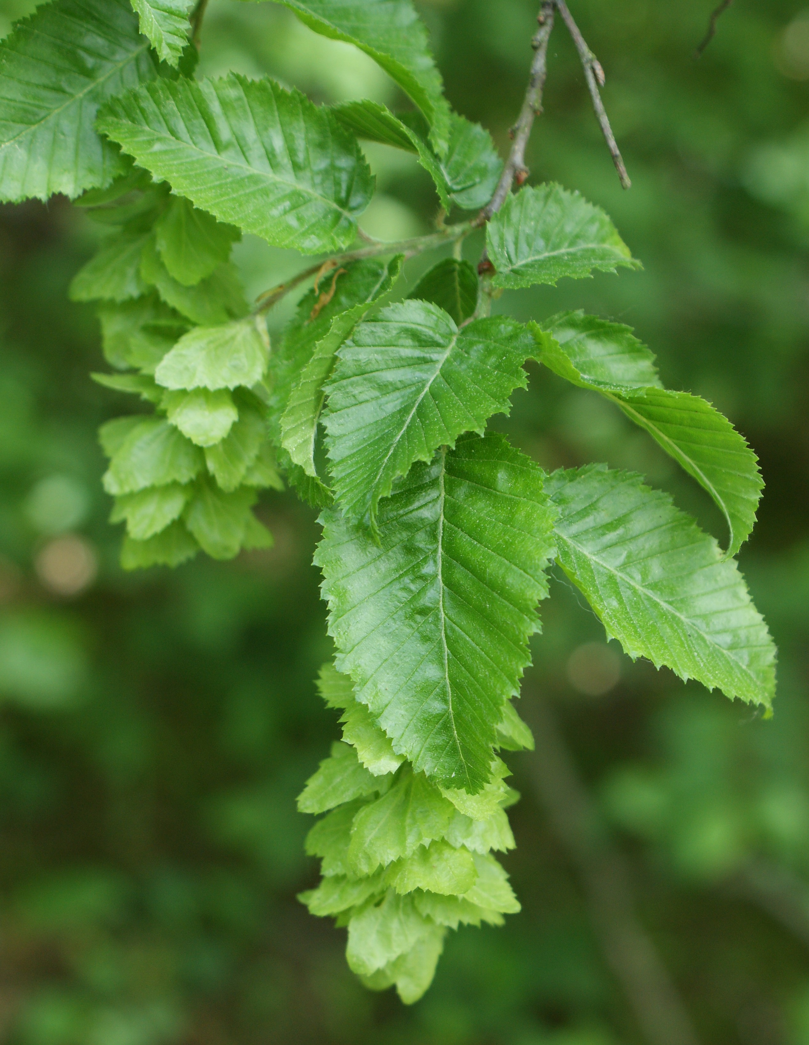 Carpinus orientalis. Glinna Arboretum near Szczecin (NW Poland)